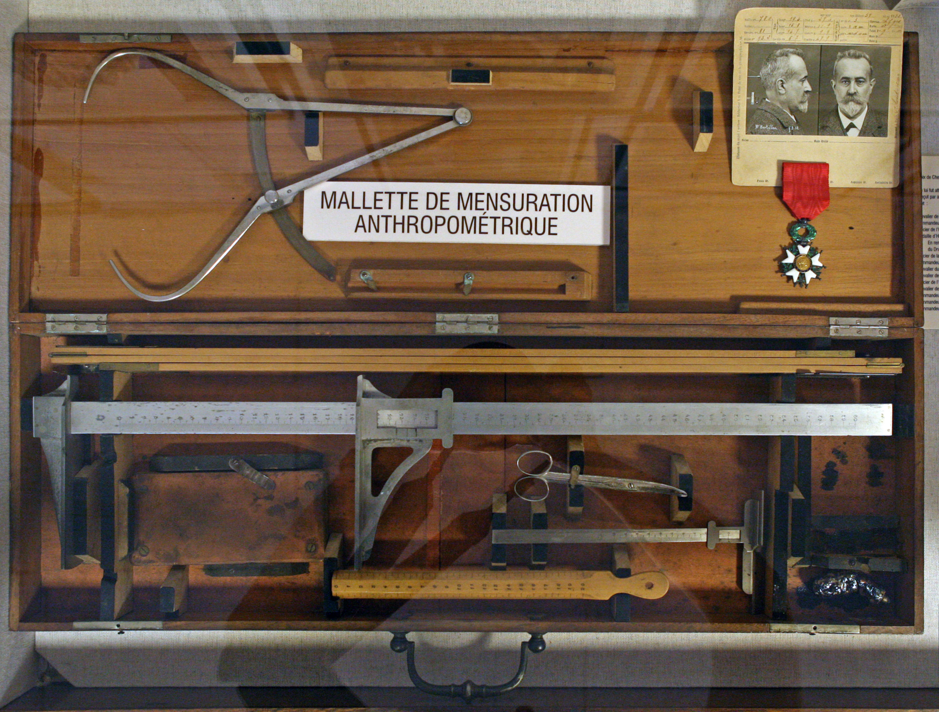 Bertillon's case of anthropometric measurement for criminals identification. Up on the right - Bertillon's self portraits in a front and profile view, according to his identification method, and the Knight of the Legion of honor decoration he received in 3 September 1893. Photograph taken in the Musée de la Préfecture de Police, Paris